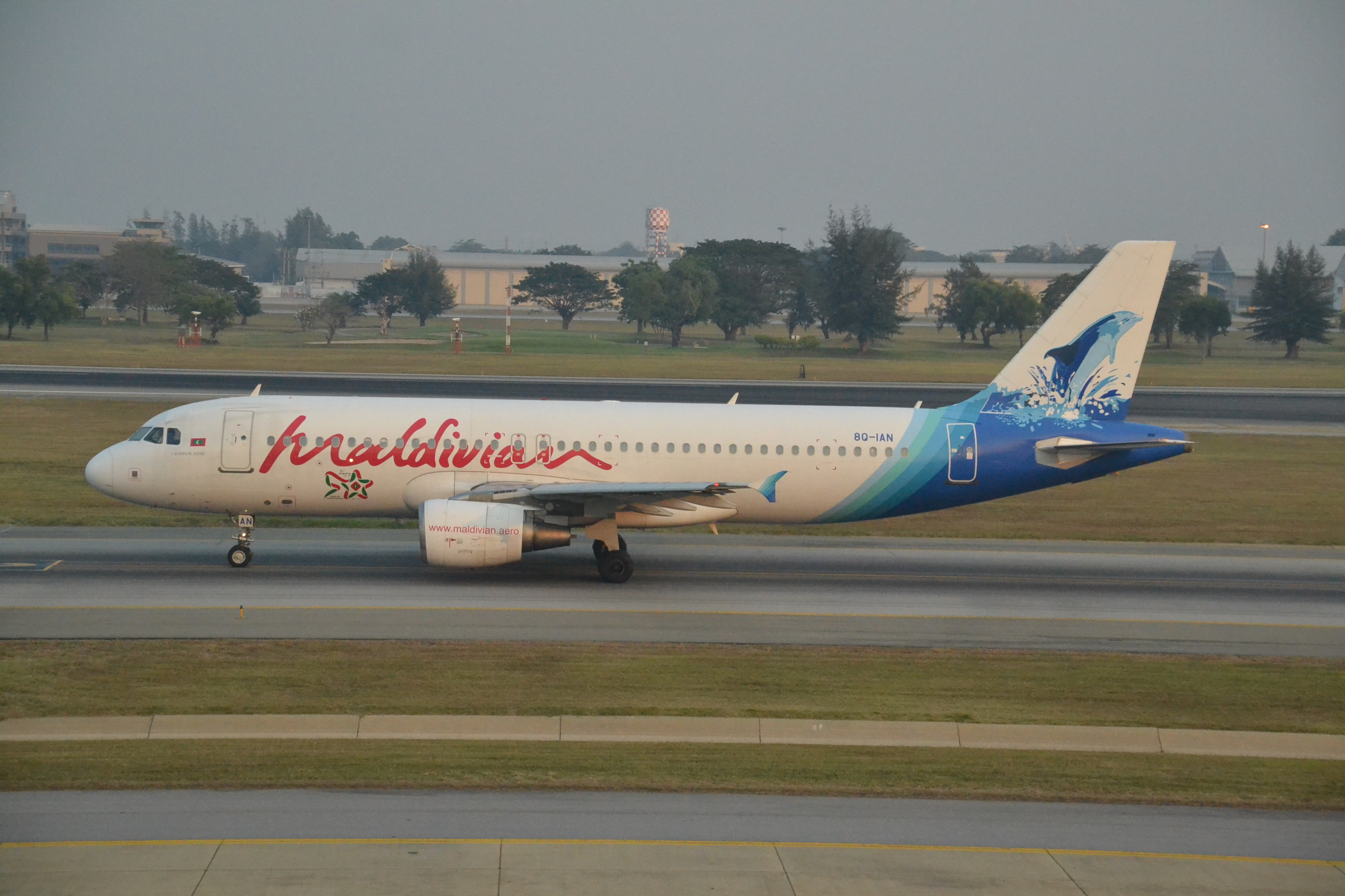 Airbus A320 of Maldivian Airlines at Bangkok-DMK, 02/03/16.